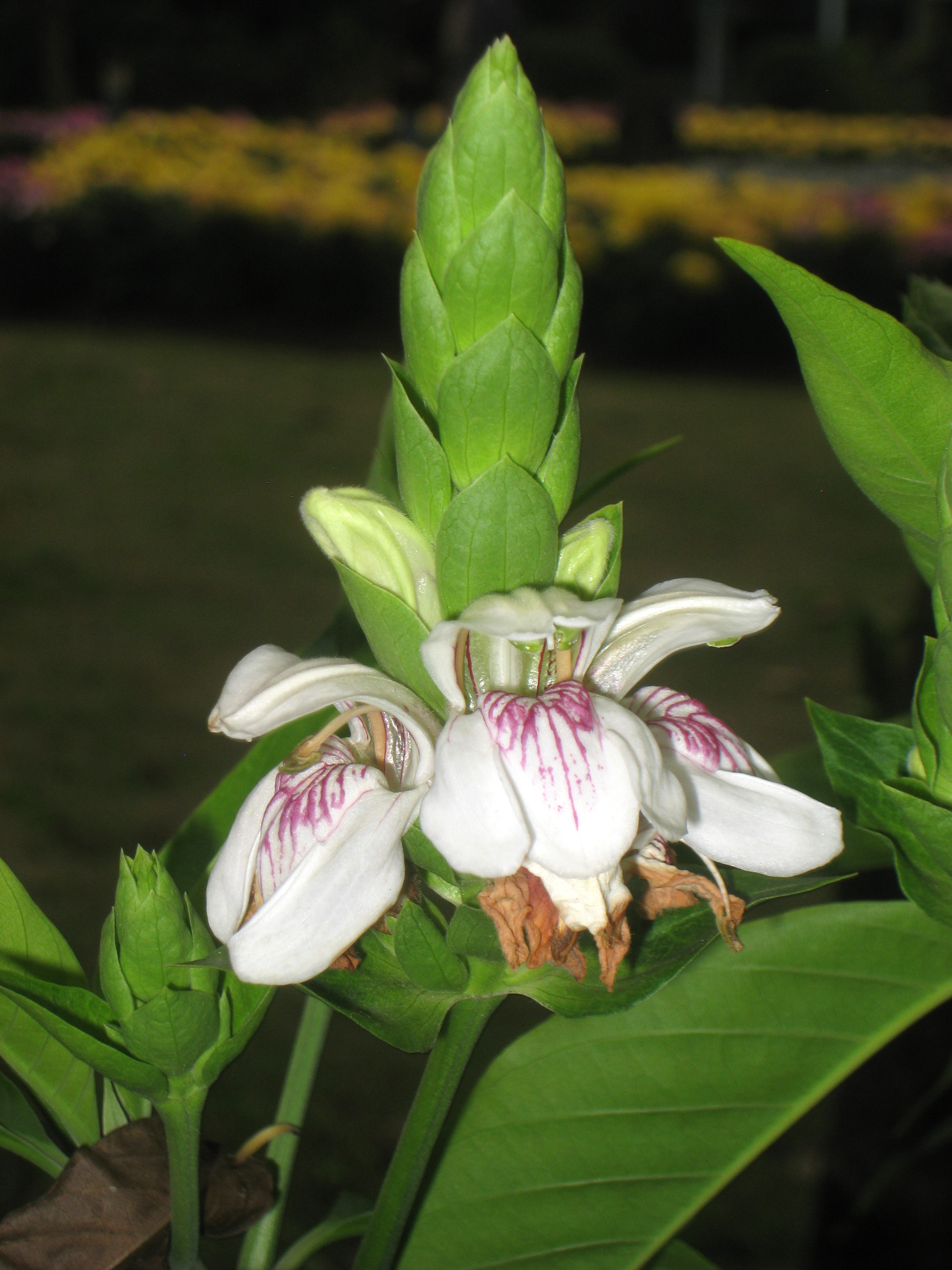 Justicia adhatoda. Plant specimen in the Hong Kong Zoological and Botanical Gardens, Hong Kong.